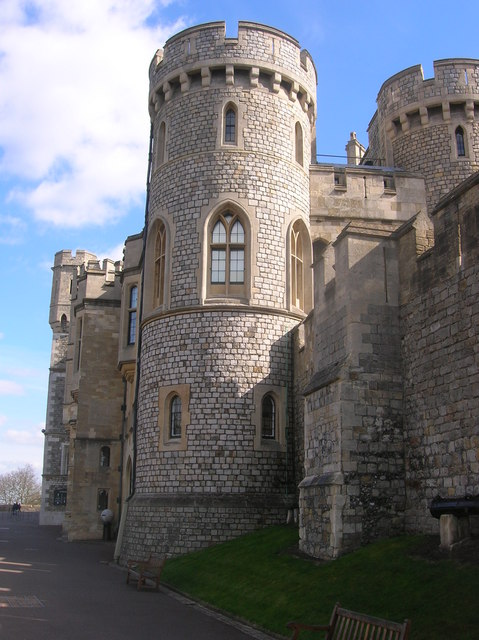 State Apartments, Windsor Castle